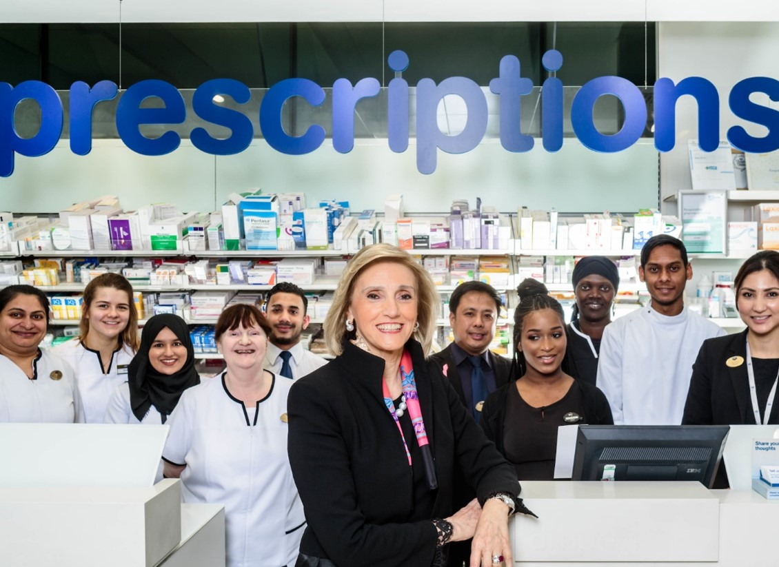 Walgreens Boots Alliance Services Limited, London, UK